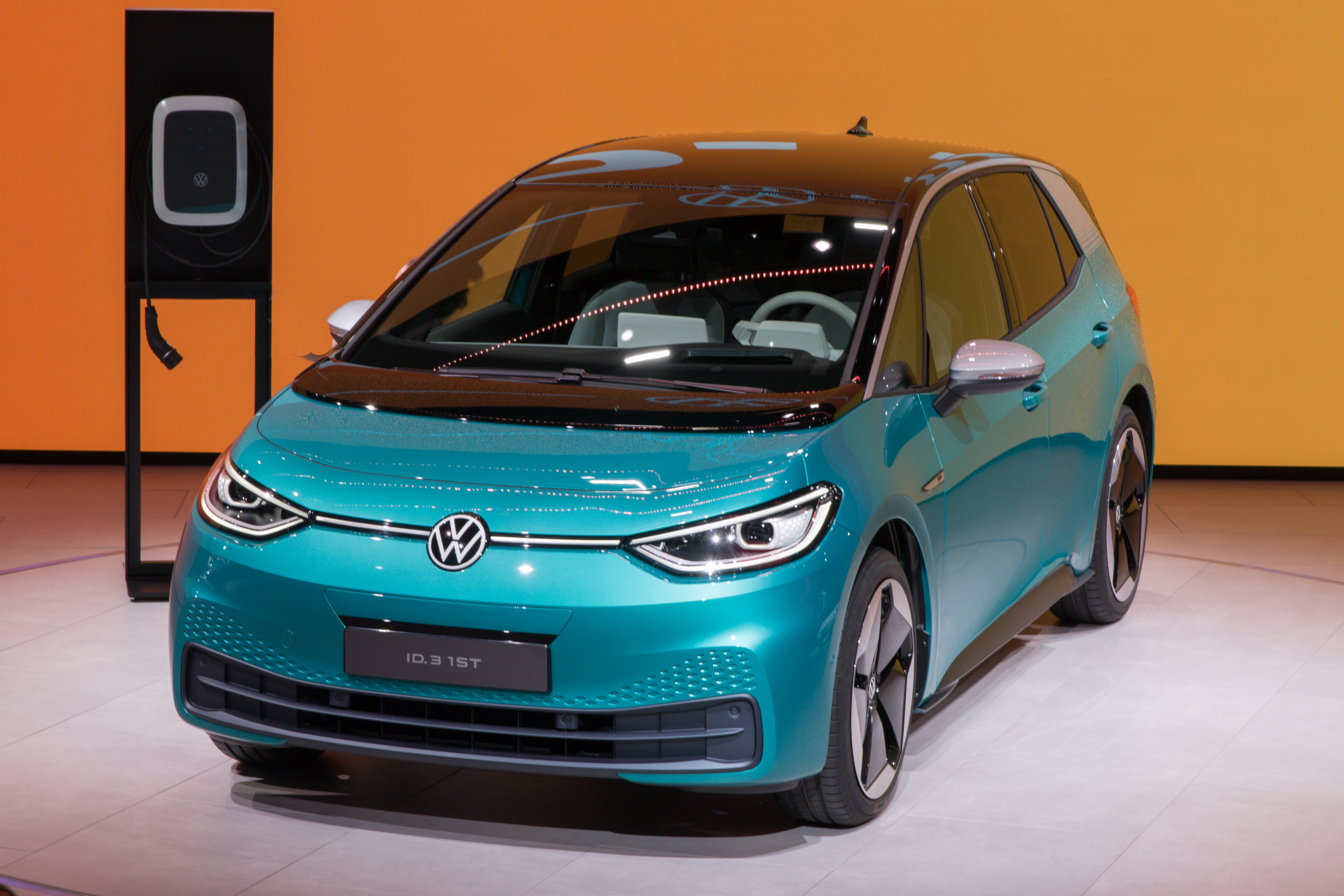 VW ID.3